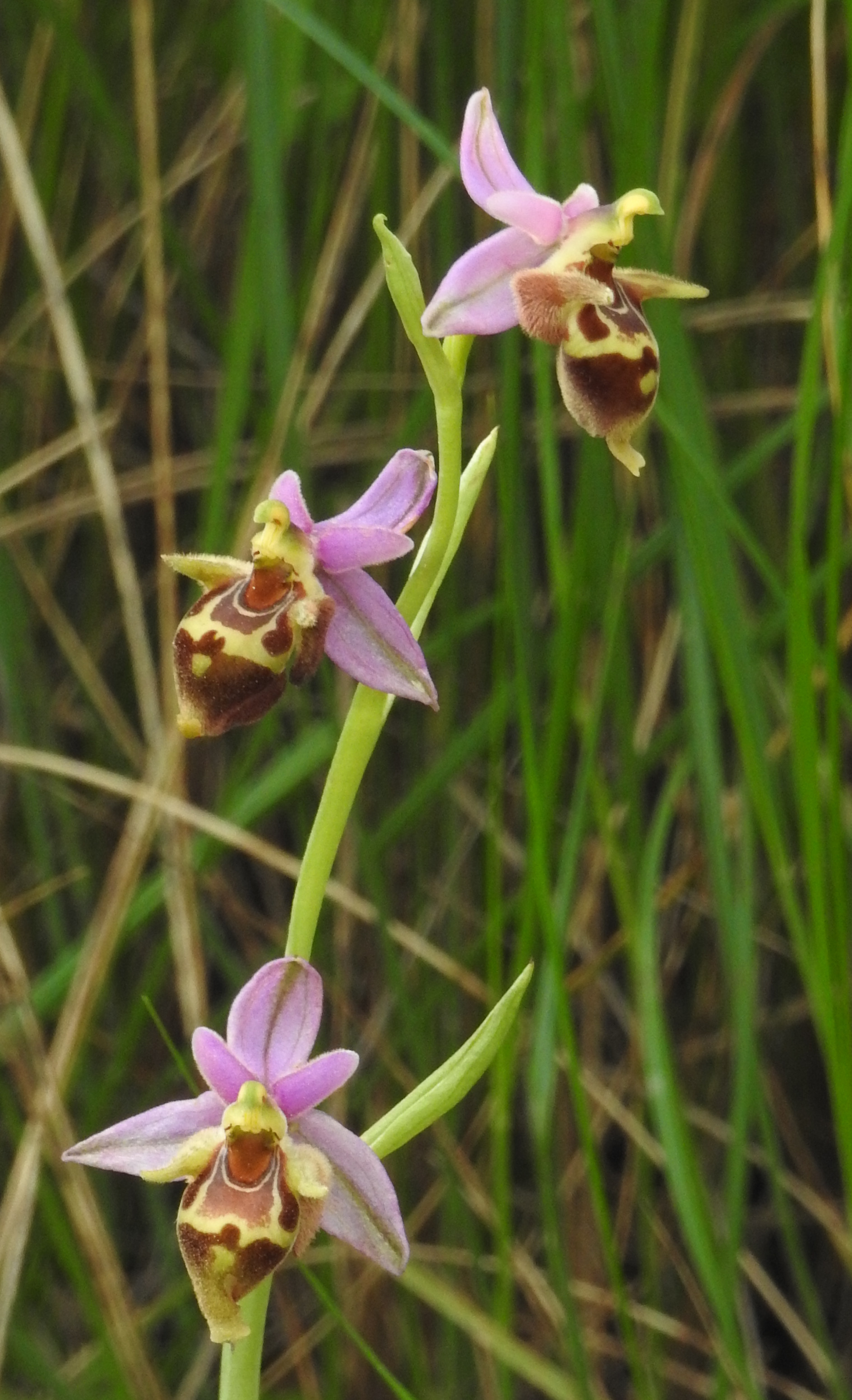 Ophrys scolopax subsp. heldreichii near archeological site Sclavocambos, Crete, Greece